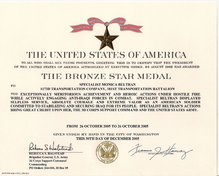 Monica Beltran's Bronze Star Medal with Valor certificate